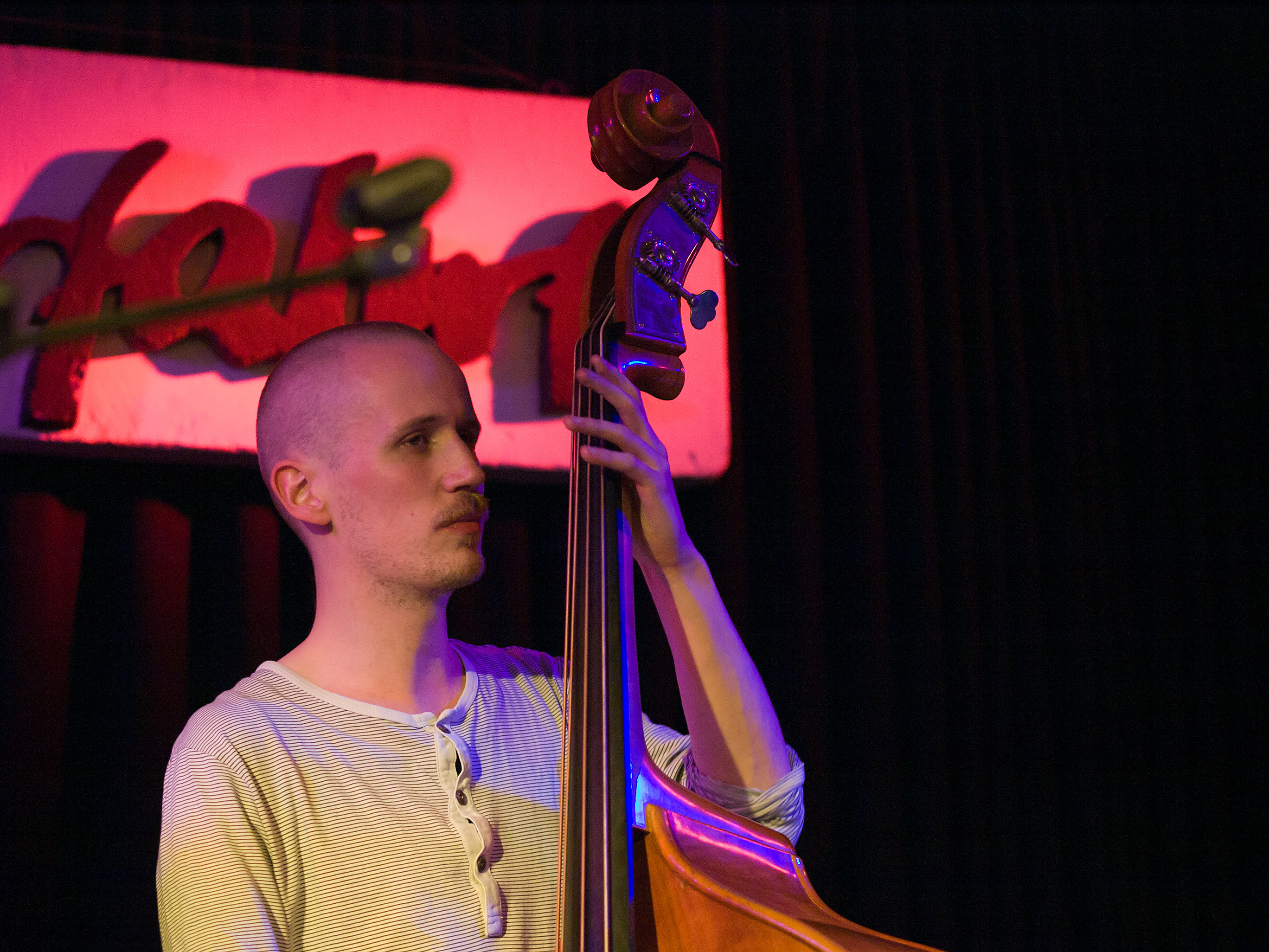 Petter Eldh, Jazz bassist; Picture taken in Jazz Club Unterfahrt, Munich/Bavaria